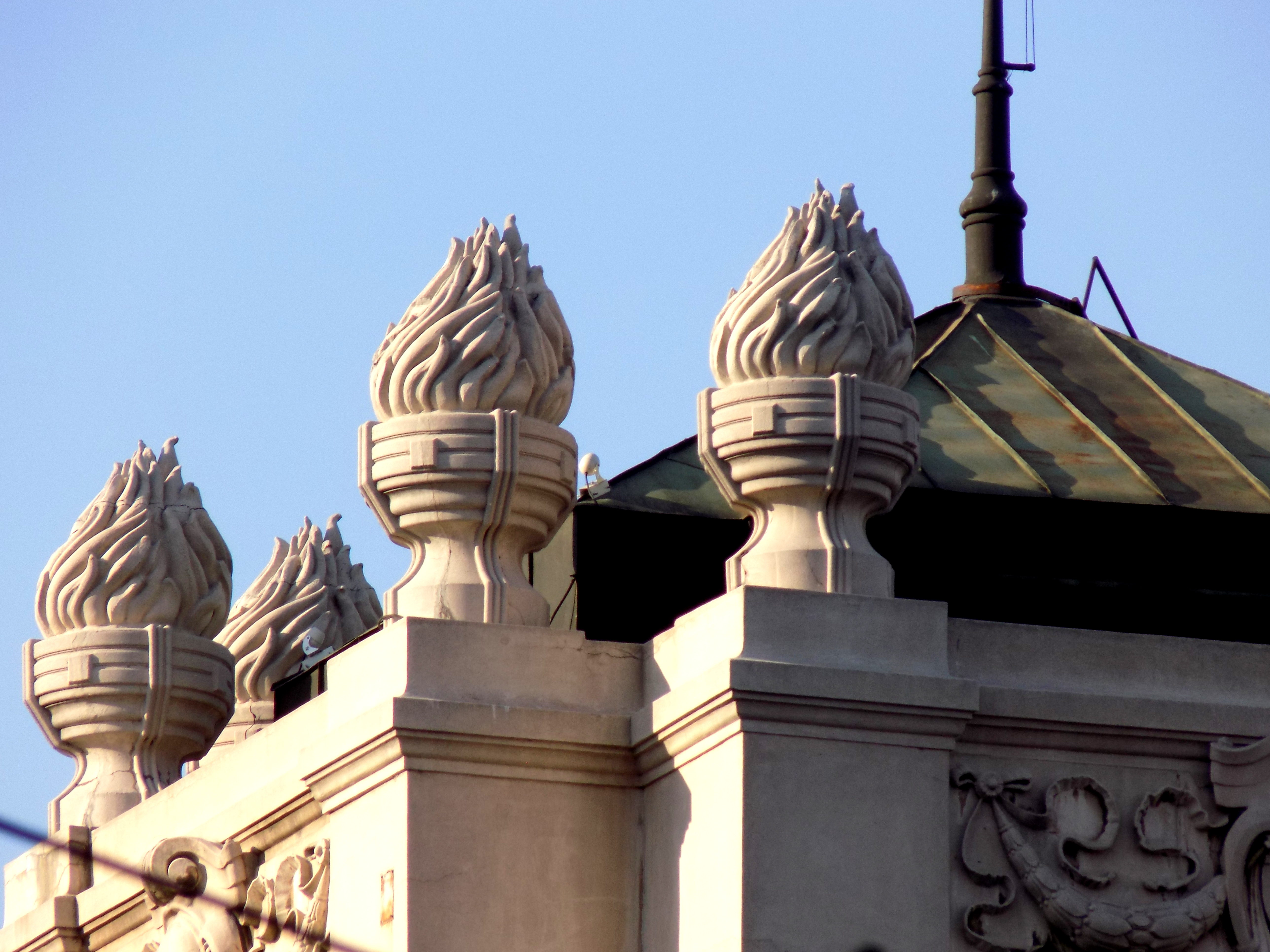 National Theater in Belgrade, decorations on the roof of the building